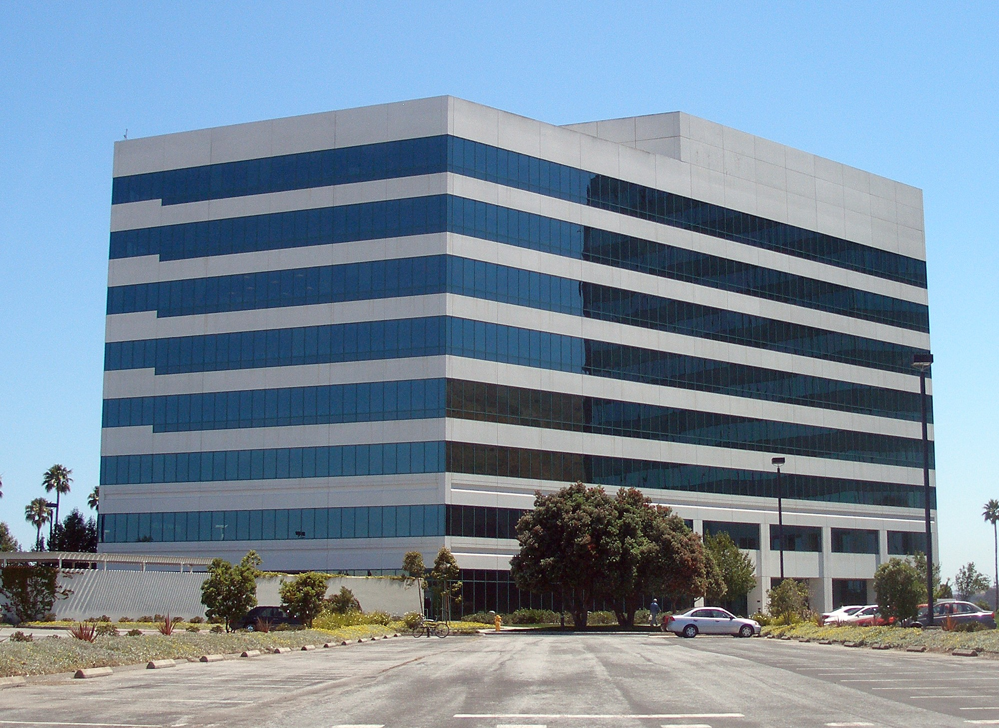 The headquarters of IGN Entertainment, Inc. at 8000 Marina Boulevard in Brisbane, California. Several key IGN properties had their offices on one floor in this building, including Rotten Tomatoes and en: . Photographed by user Coolcaesar on June 17, en:2007.